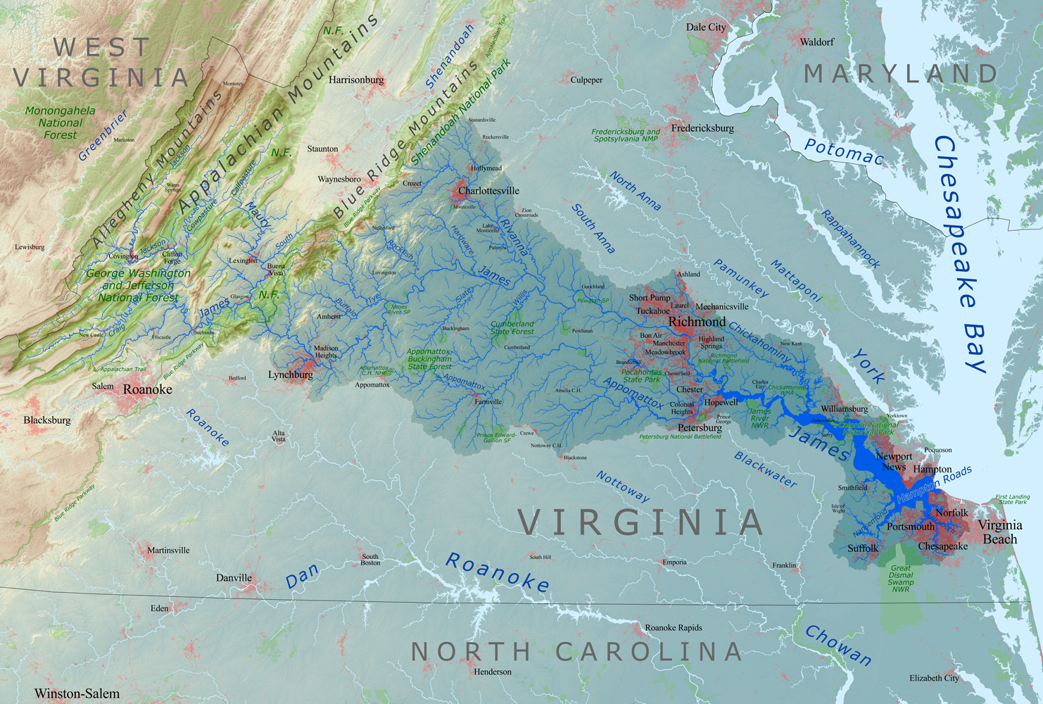 Map of the James River drainage basin made using data from the National Map. Urban areas are in red, parks and other protected areas are in green.